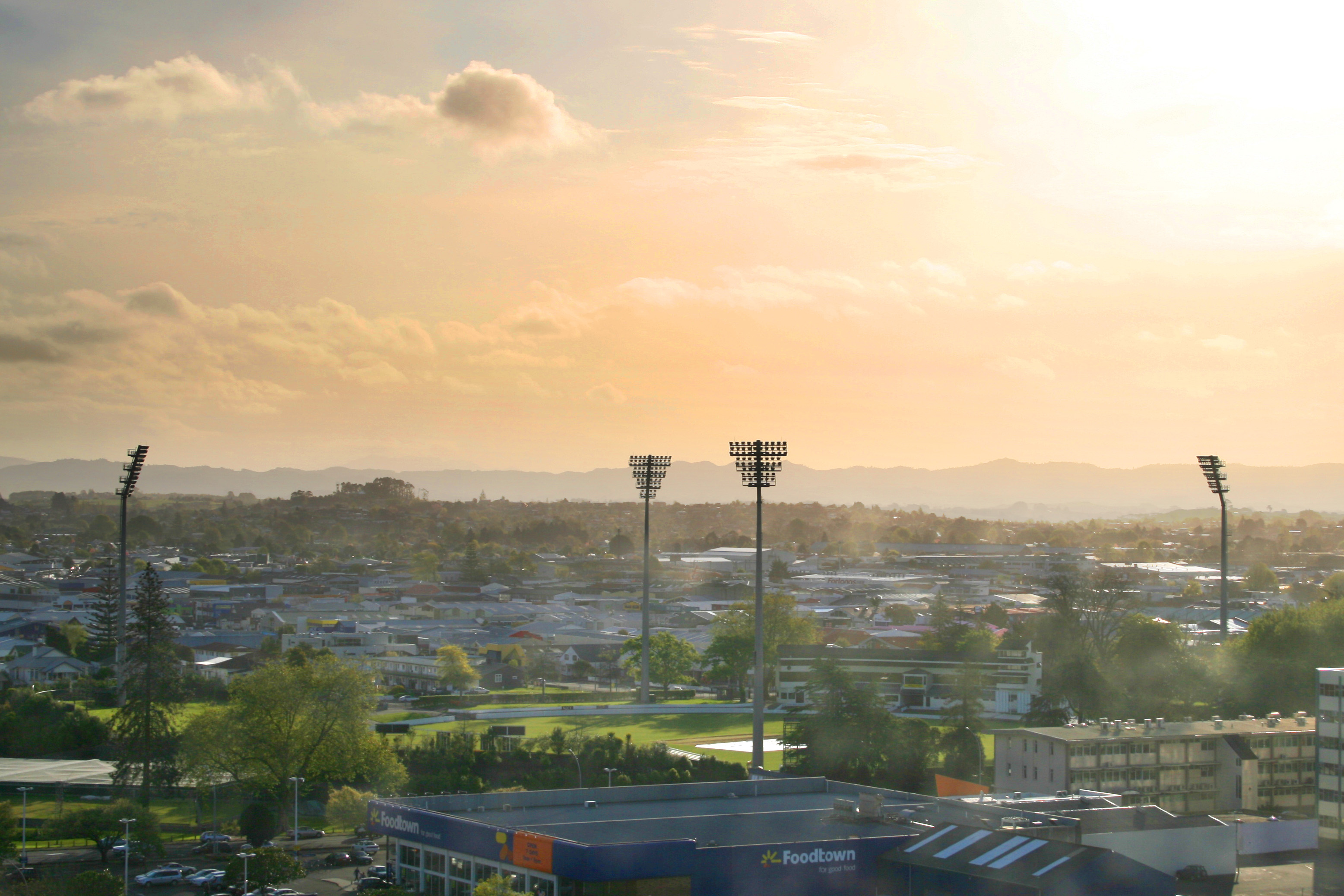 This is the view from the More FM on air studio.